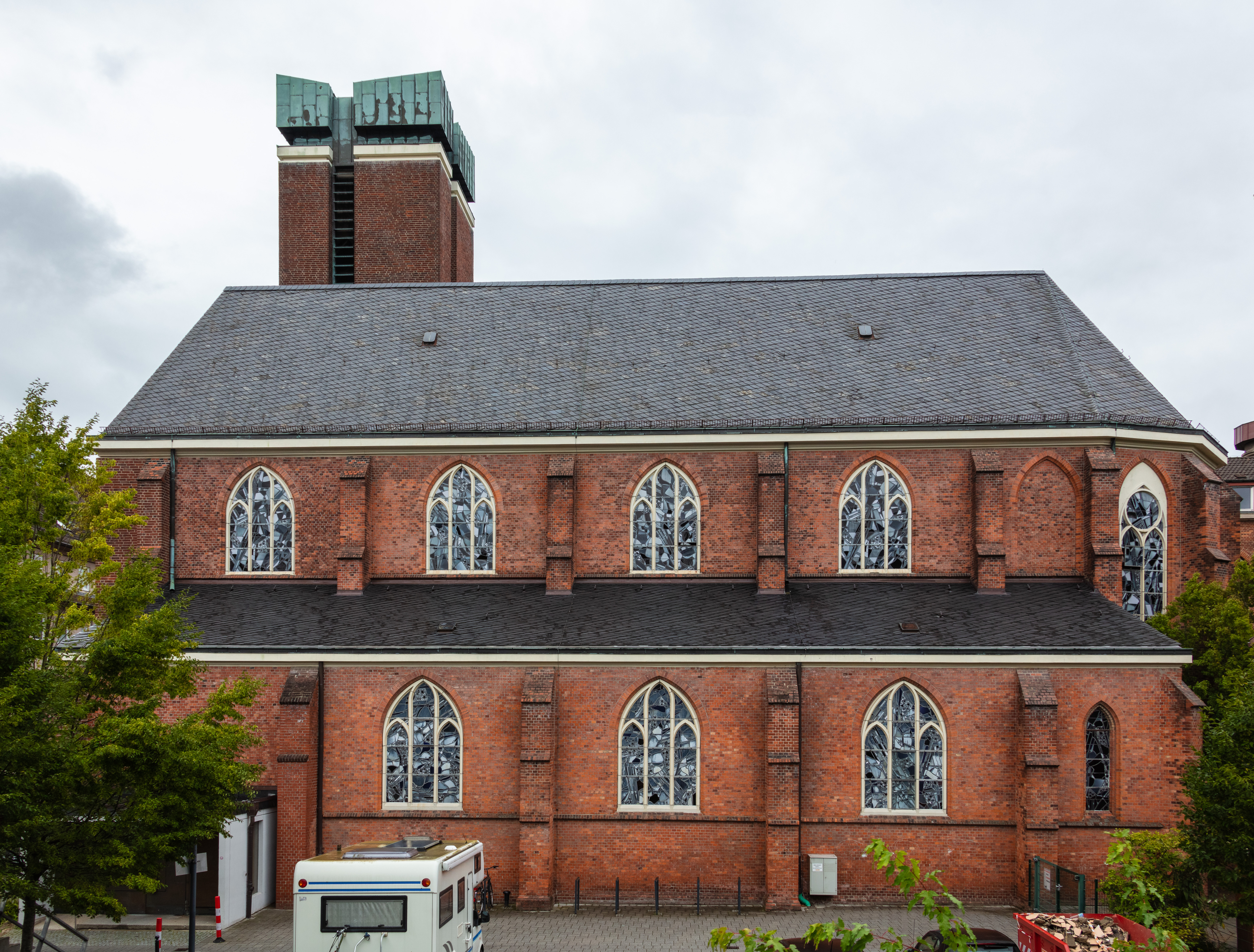 St Nicholas catholic church, Kiel, Germany